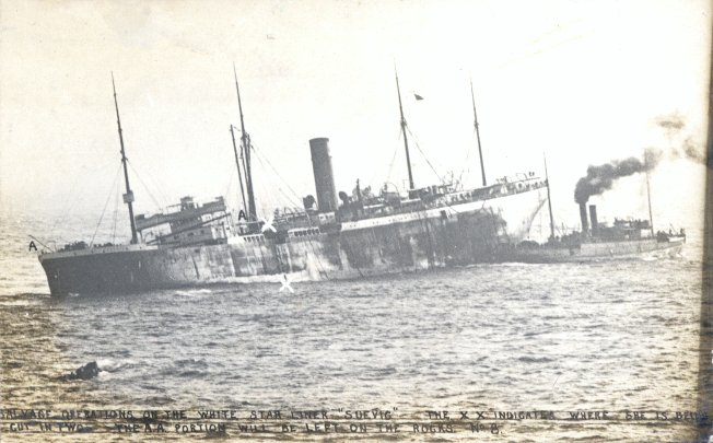 The White Star liner Suevic aground on The Lizard in 1907